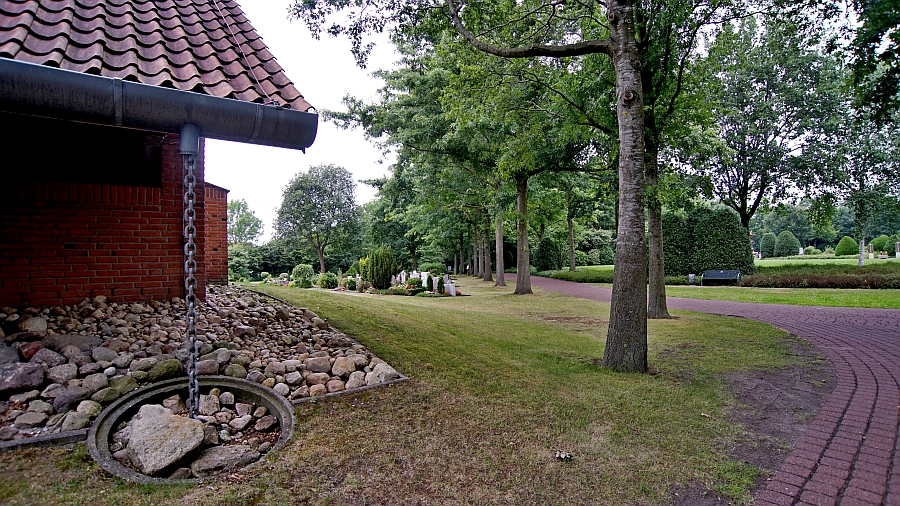 Moordeich Cemetery in Stuhr near Bremen (Germany), view from the chapel